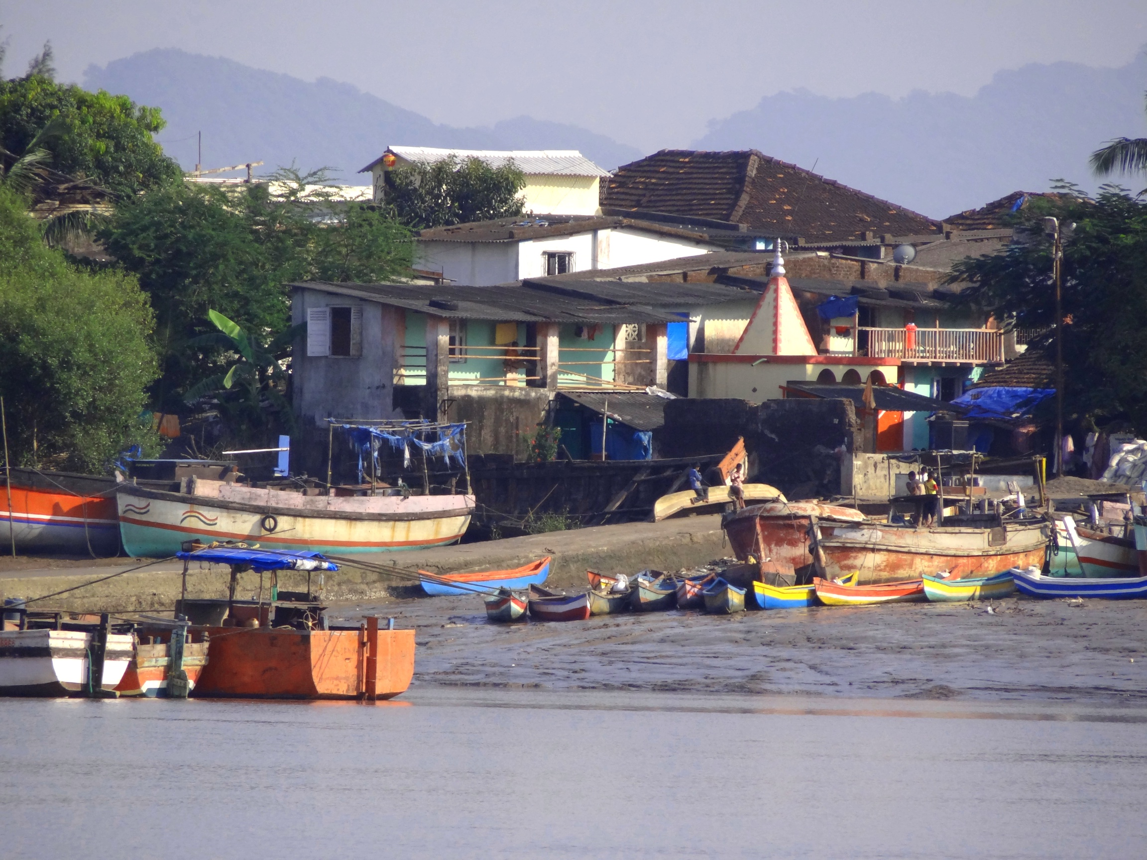 Panju village with the jetty visible, the only source of access to the mainland